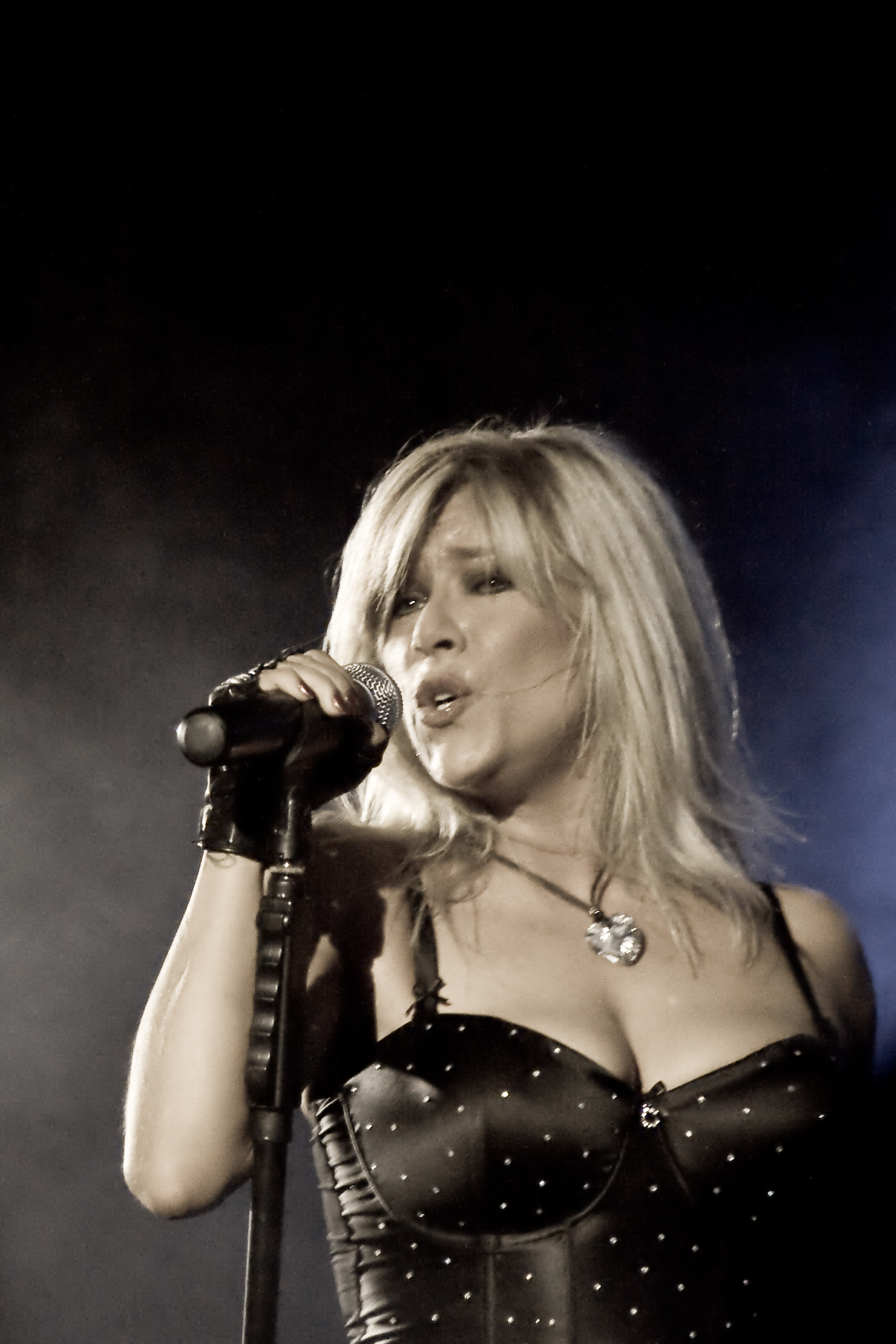 Samantha Fox live in Rescaldina, Lombardy, Italy